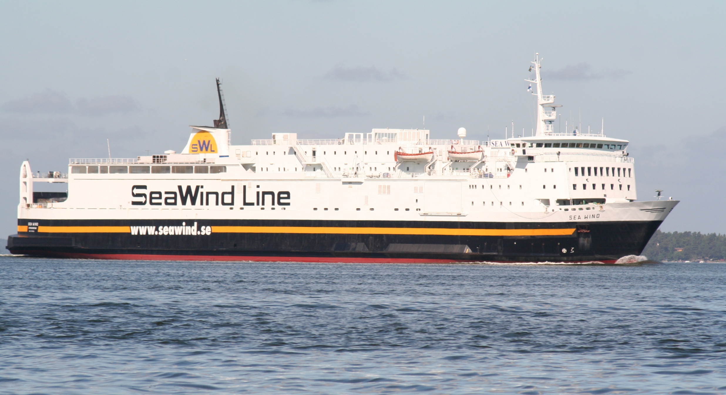 Swedish cargo ship MS Sea Wind in Stockholm Archipelago. IMO Number: 7128332 MMSI Number: 265126000 Callsign: SDNE Length: 154 m Beam: 22 m